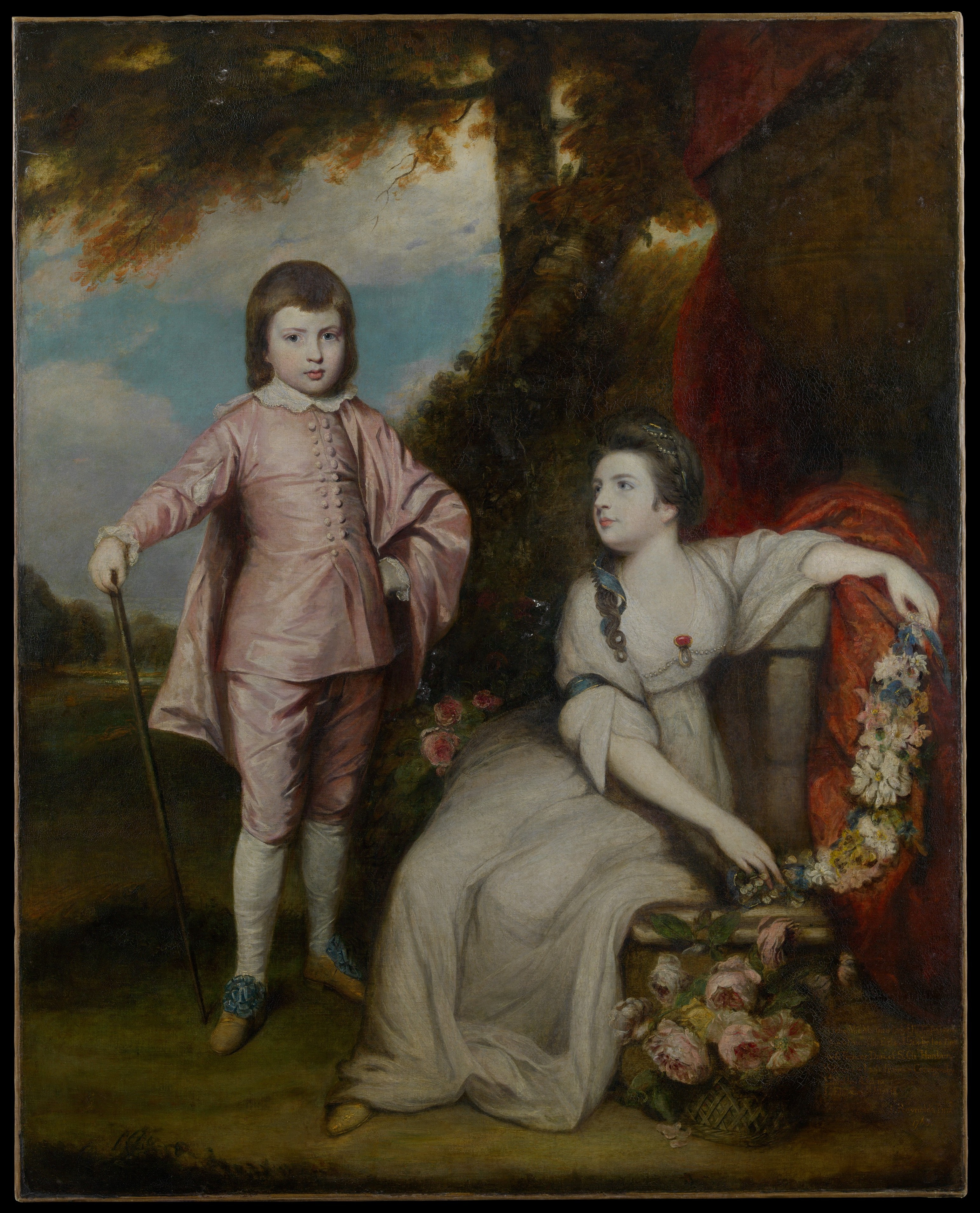 Portrait by Sir Joshua Reynolds of George Capel, Viscount Malden (1757–1839), and Lady Elizabeth Capel (1755–1834), the only children of William Anne Capel, fourth Earl of Essex, and his first wife, Frances. Viscount Malden became a Member of Parliament and later took the name Coningsby. He became fifth Earl of Essex in 1799 and lived at Cassiobury House, Watford. The portrait was sold with other Cassiobury estate assets in 1922-3 and now hangs in the Metropolitan Museum of Art in New York.